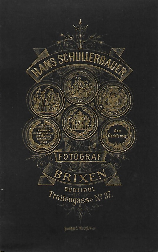 Reverse of Schullerbauerl's Carte de visite Brixen